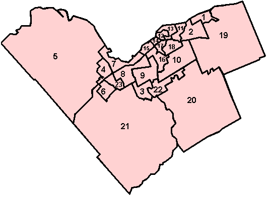 Map of Ottawa's wards used since the 2014 municipal election (slight change in Stittsville Ward's boundaries)